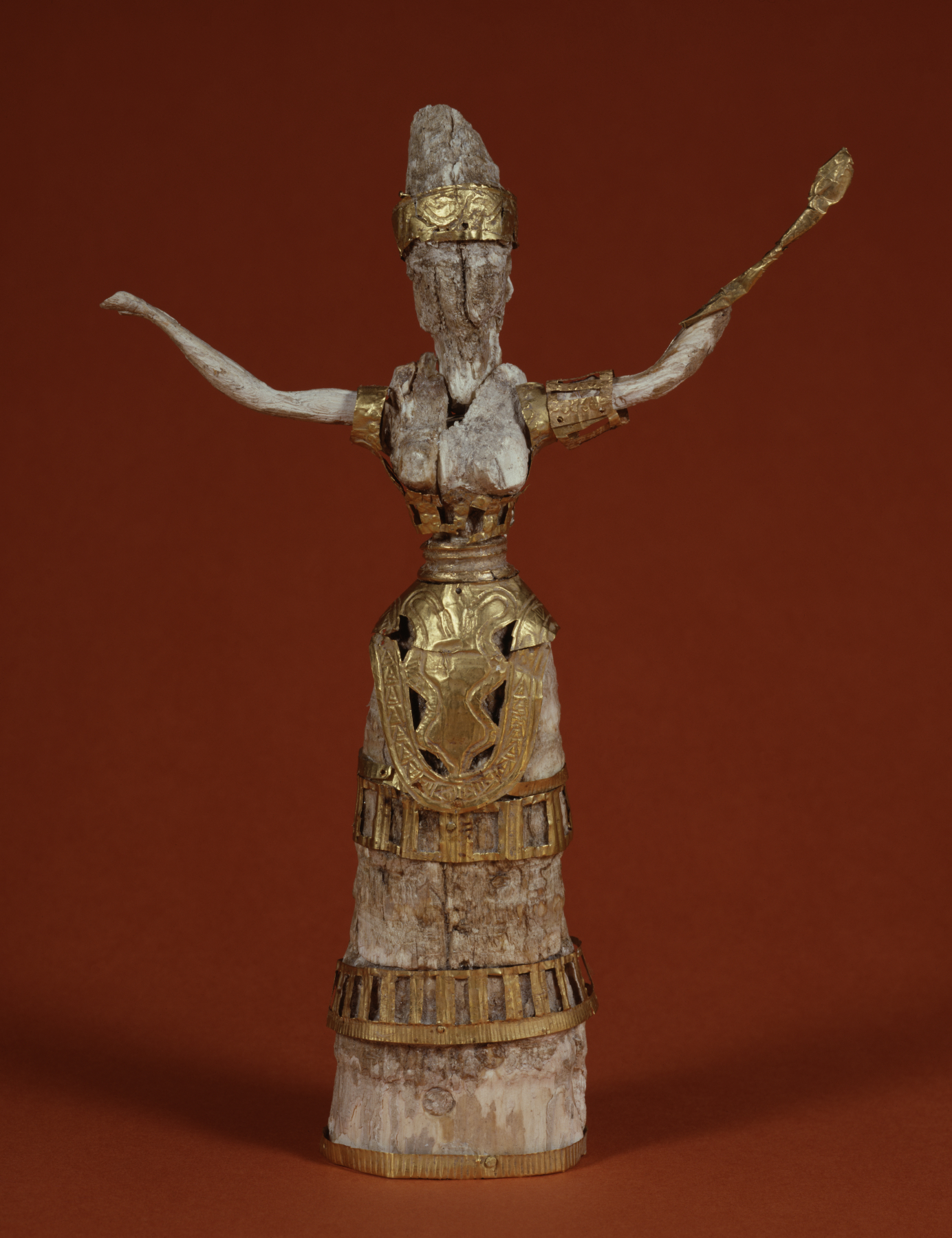 Despite the delicate nature of the precious gold and ivory materials, the stance of this small figurine conveys power and strength. It closely resembles ceramic statuettes identified as goddesses or priestesses found in the sanctuary space known as the "Pillar Shrine" within the Minoan palace of Cnossus, Crete. The snakes adorning the figure are symbolic of fertility and regenerative powers.